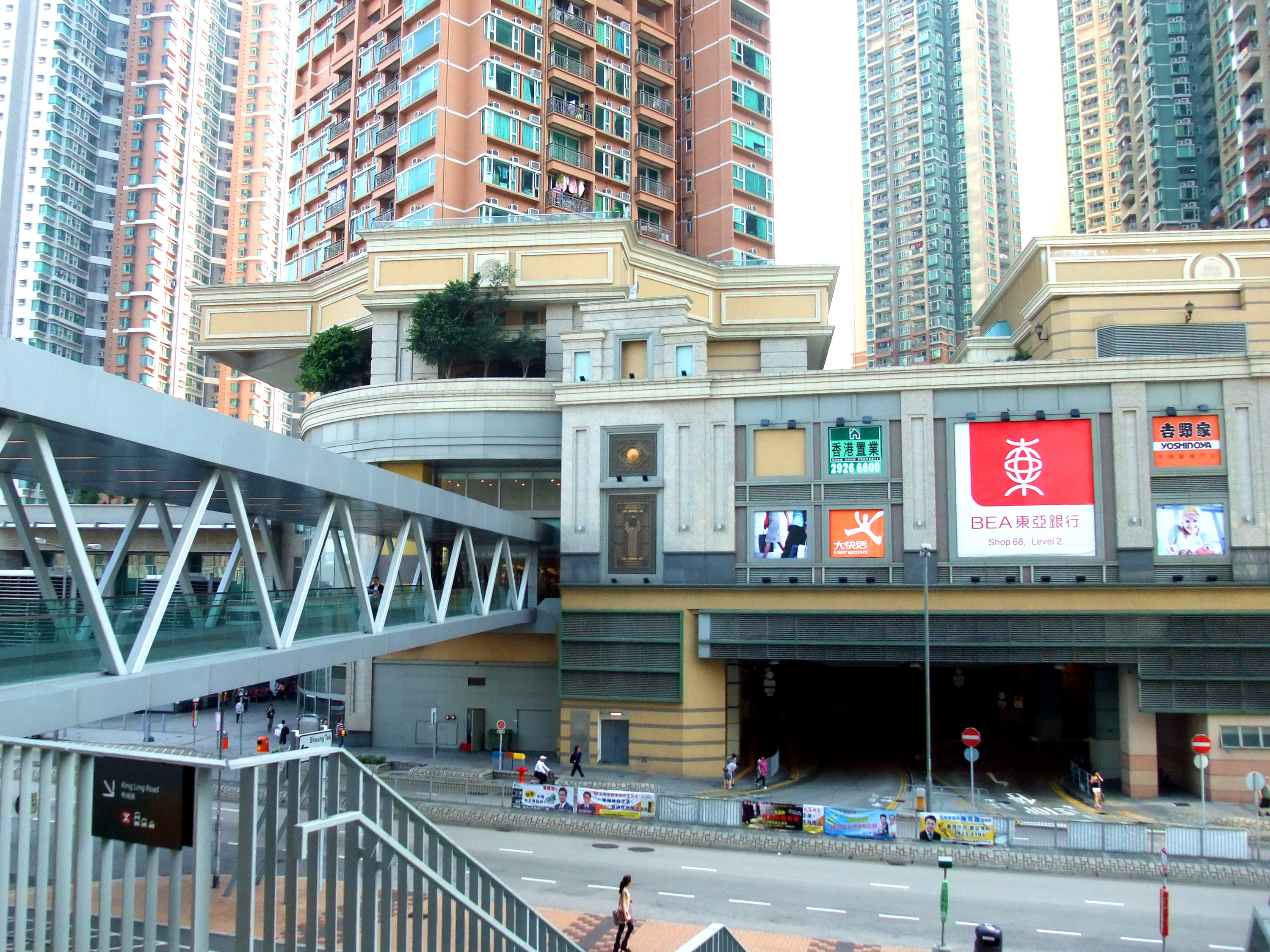 Metro Town, Tseung Kwan O, Hong Kong.